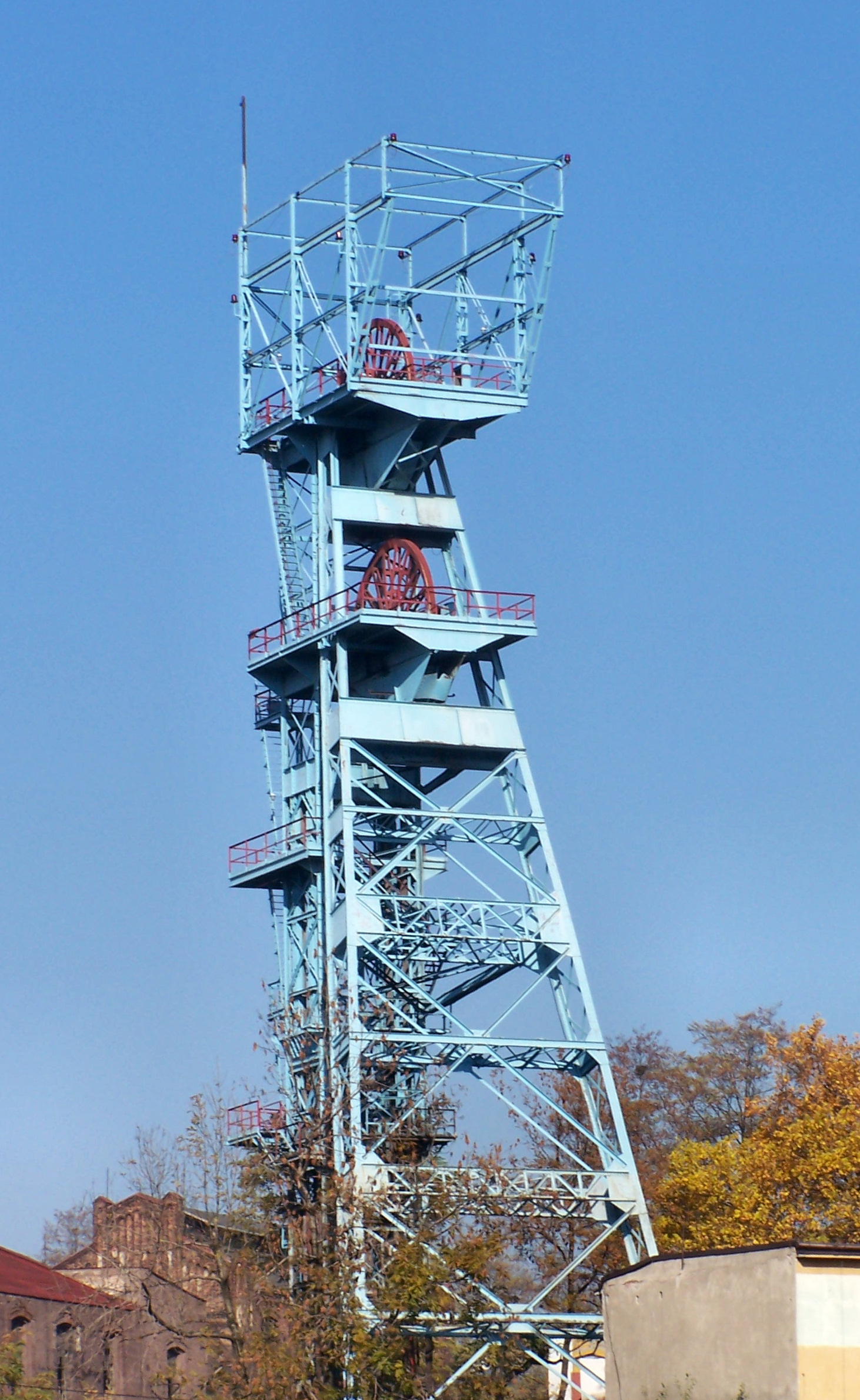 Shaft "Warszawa" in coal mine "Katowice".